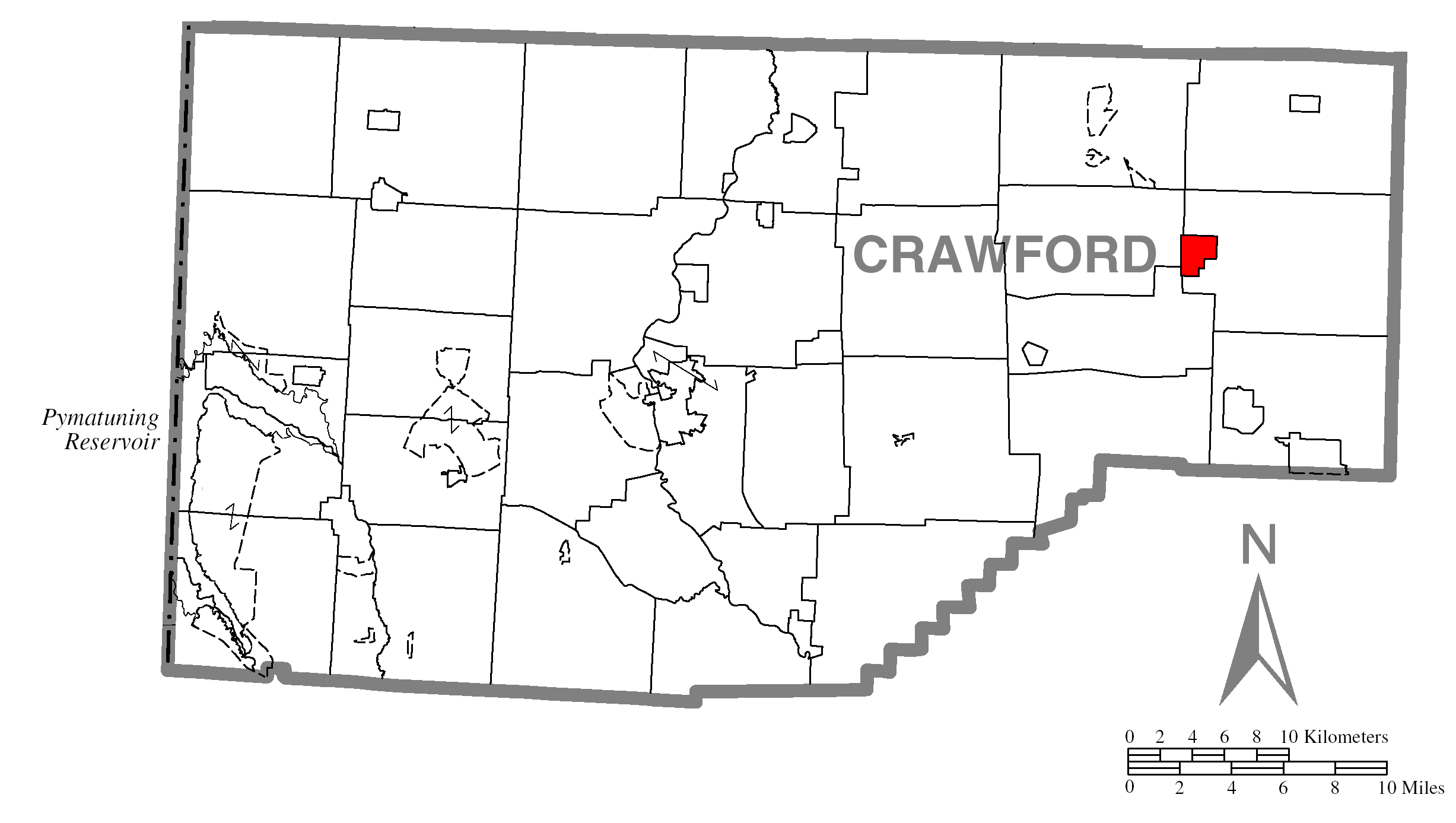 Map of Crawford County higlighting Cambridge Springs.